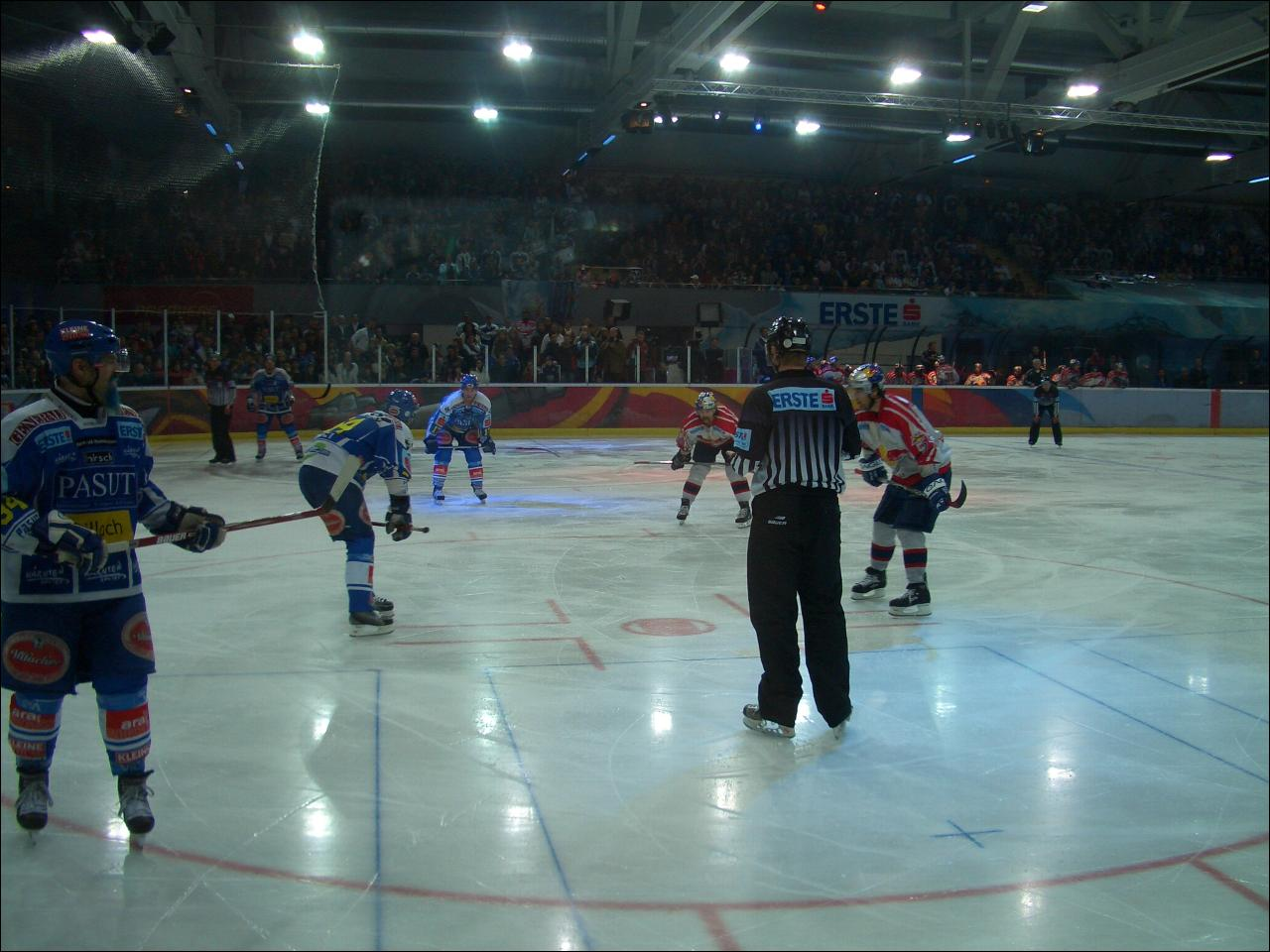 Red Bull - VSV in 3rd game of EBEL finals 2007